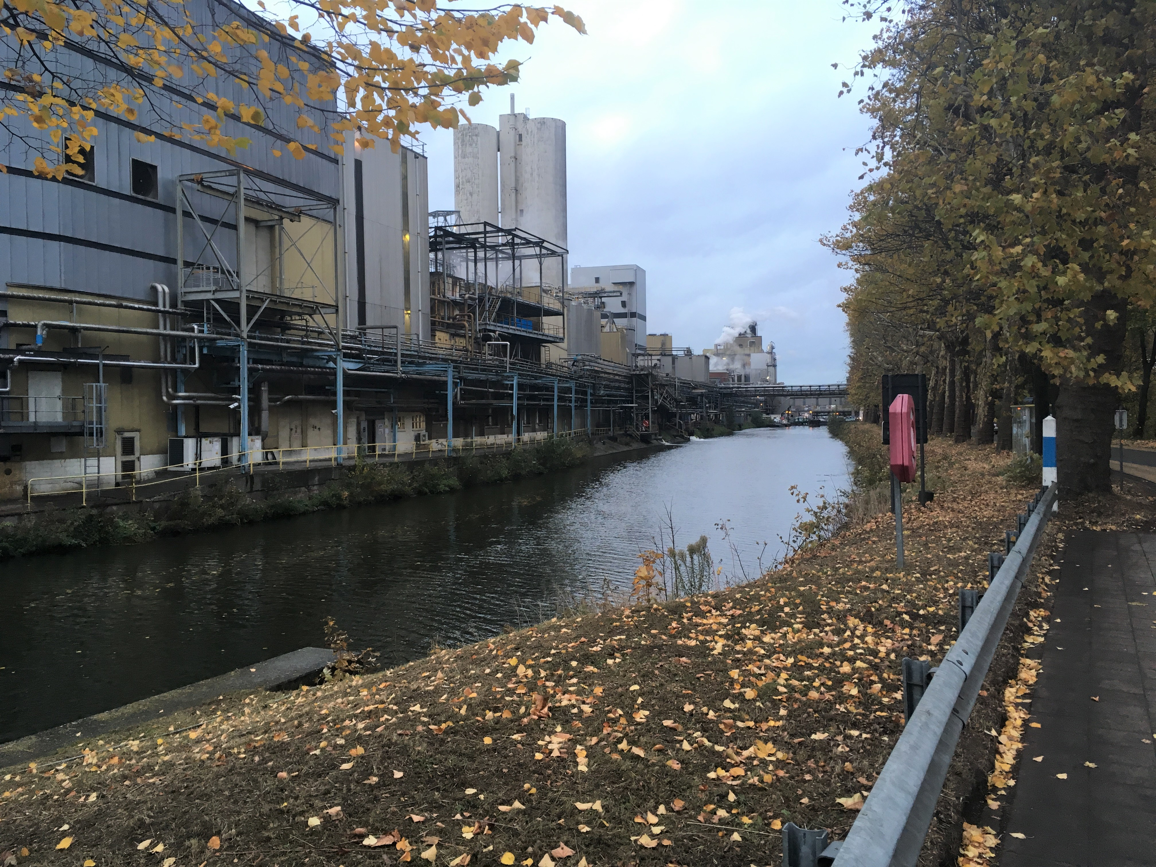 Tereos Syral factory by the Dender river in Aalst, Belgium